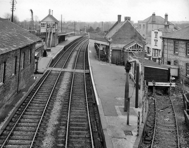 Blandford Forum Station. View southward, towards Bournemouth (Somerset & Dorset main line); line and station closed March 1966.